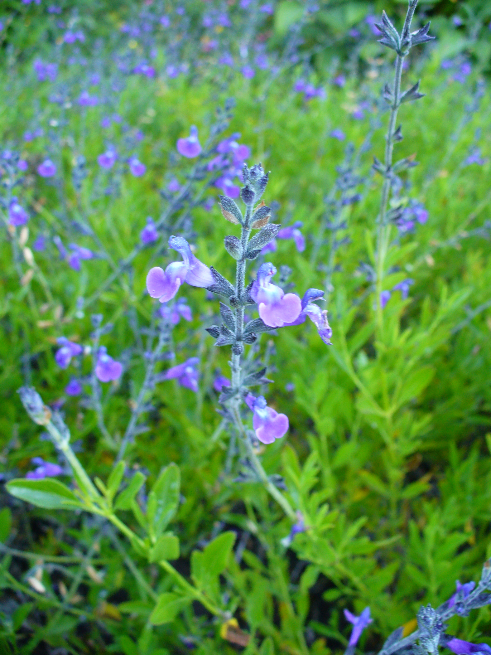 Salvia × coahuilensis, Botanic Garden, Cabrillo College, Aptos, CA. Photographed during the Salvia Summit, 1-2 Aug 2008.